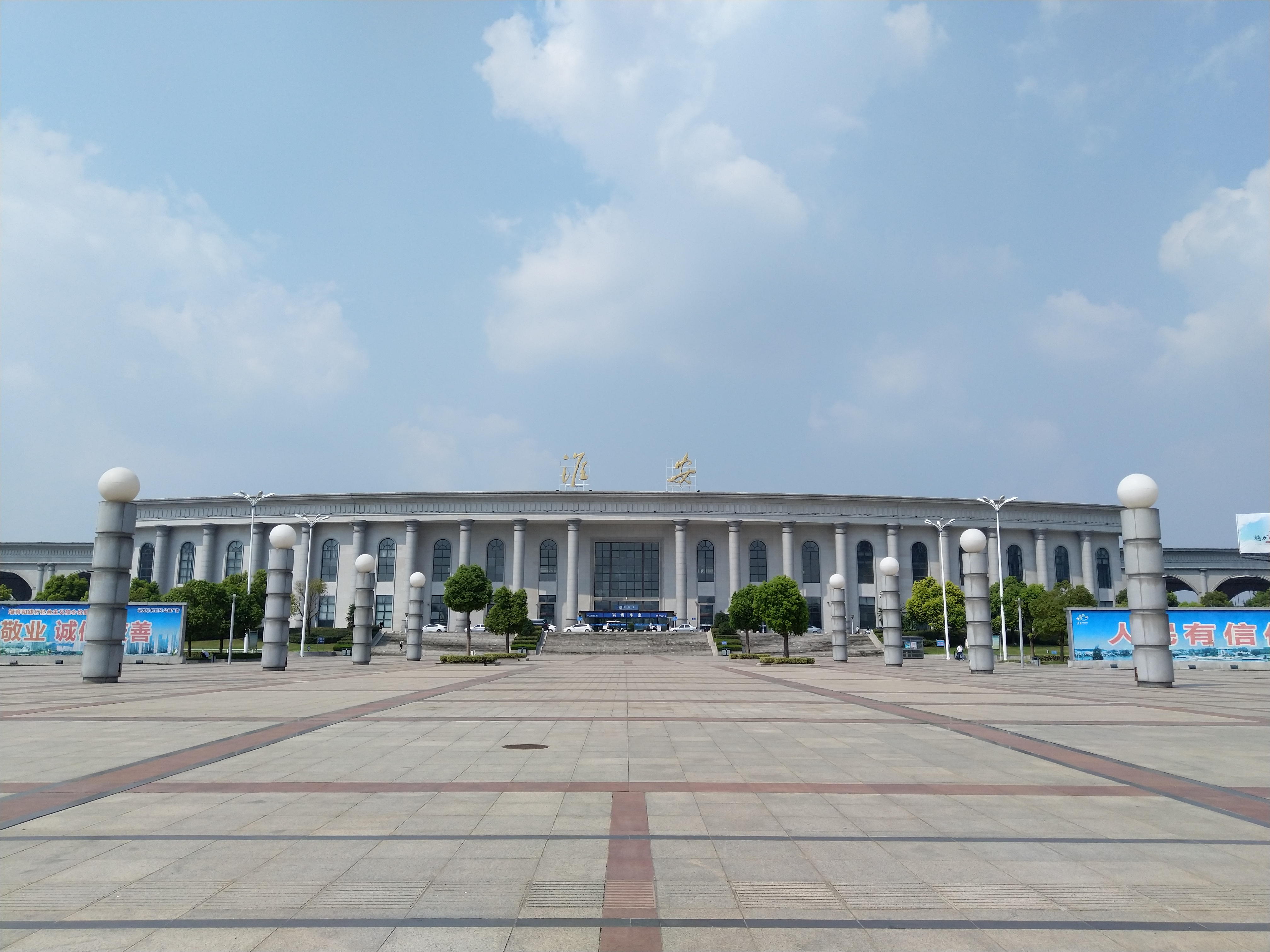 Huaian Railway Station